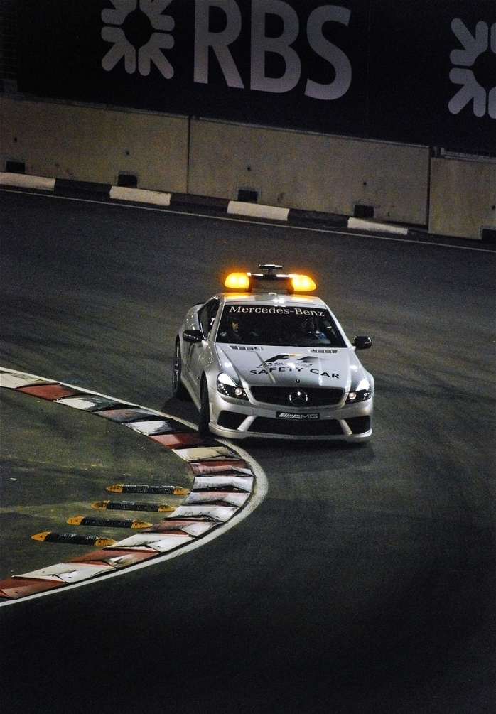 Formula One safety car at 2008 Singpaore Grand Prix